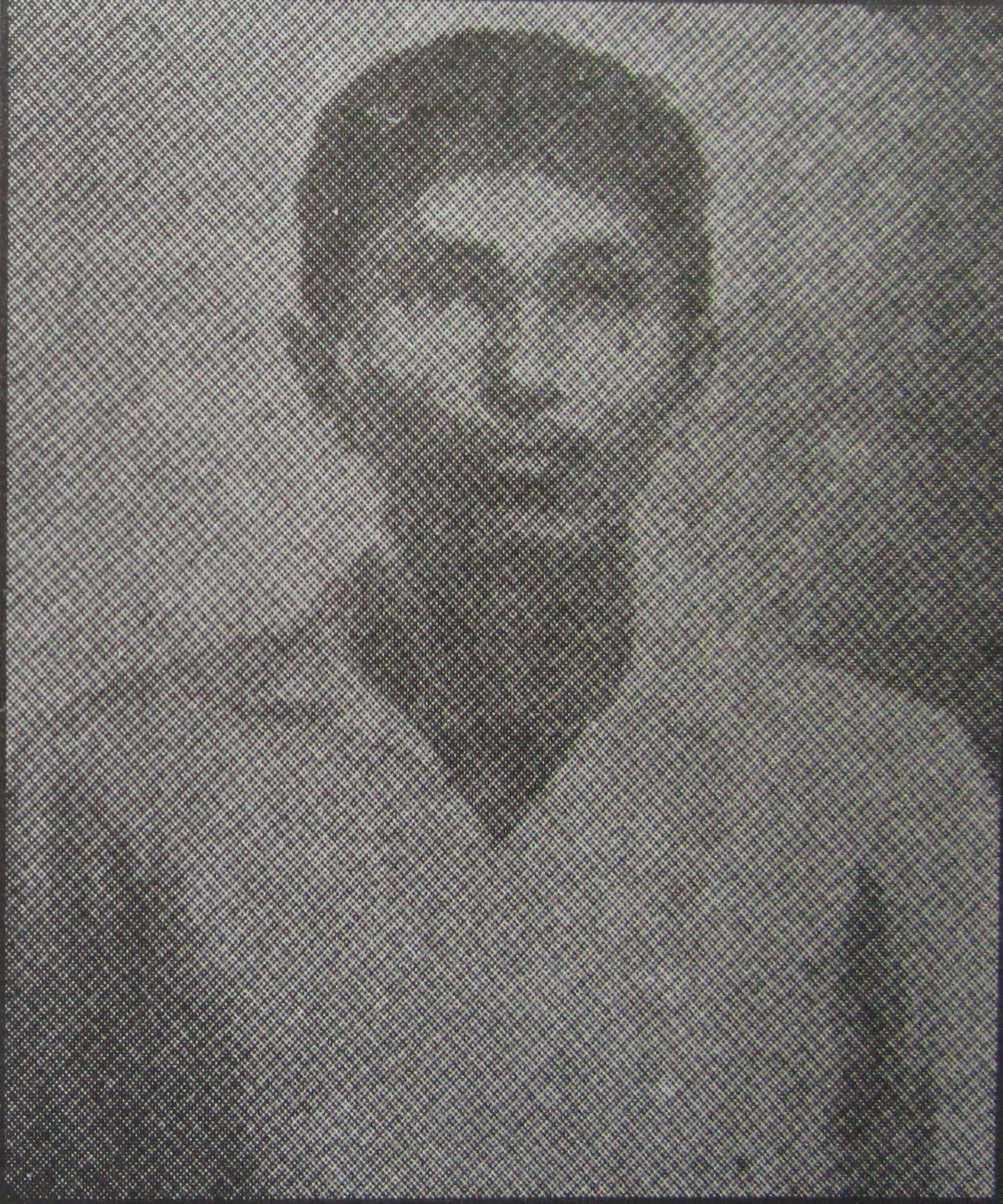 Matilal Mallik